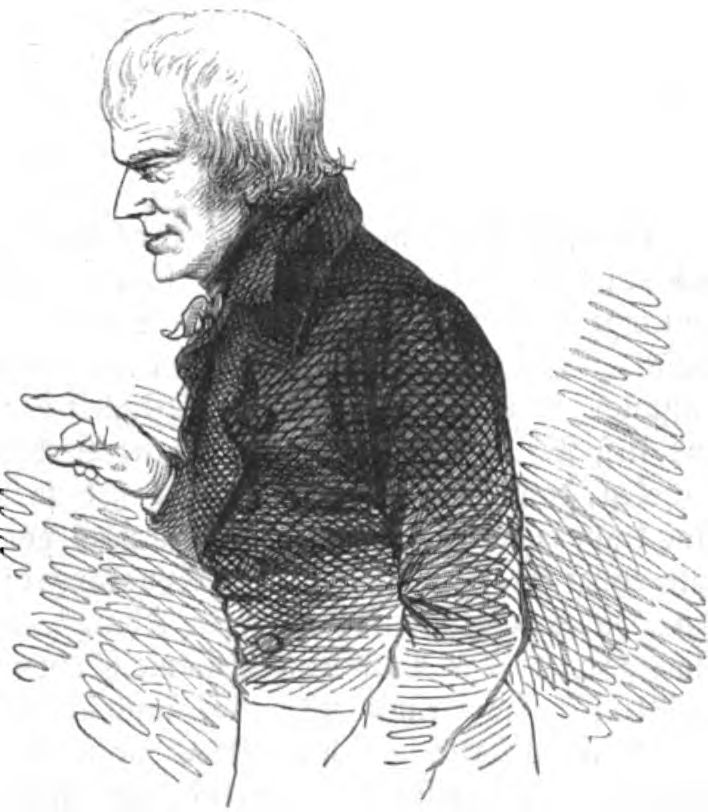 Drawing published by Eduard Mörike in the journal Freya. It shows Friedrich Hölderlin about 1825